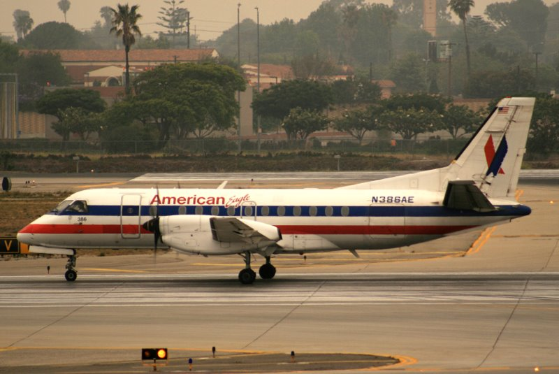 A Saab 340B+ formerly operated by American Eagle Airlines about to take off at Los Angeles International Airport. Digital photo of N386AE taken by YSSYguy on 5 June 2007 and uploaded for use in the American Eagle Airlines article. Image edited using Picasa software. YSSYguy (talk) 12:16, 14 June 2010 (UTC)